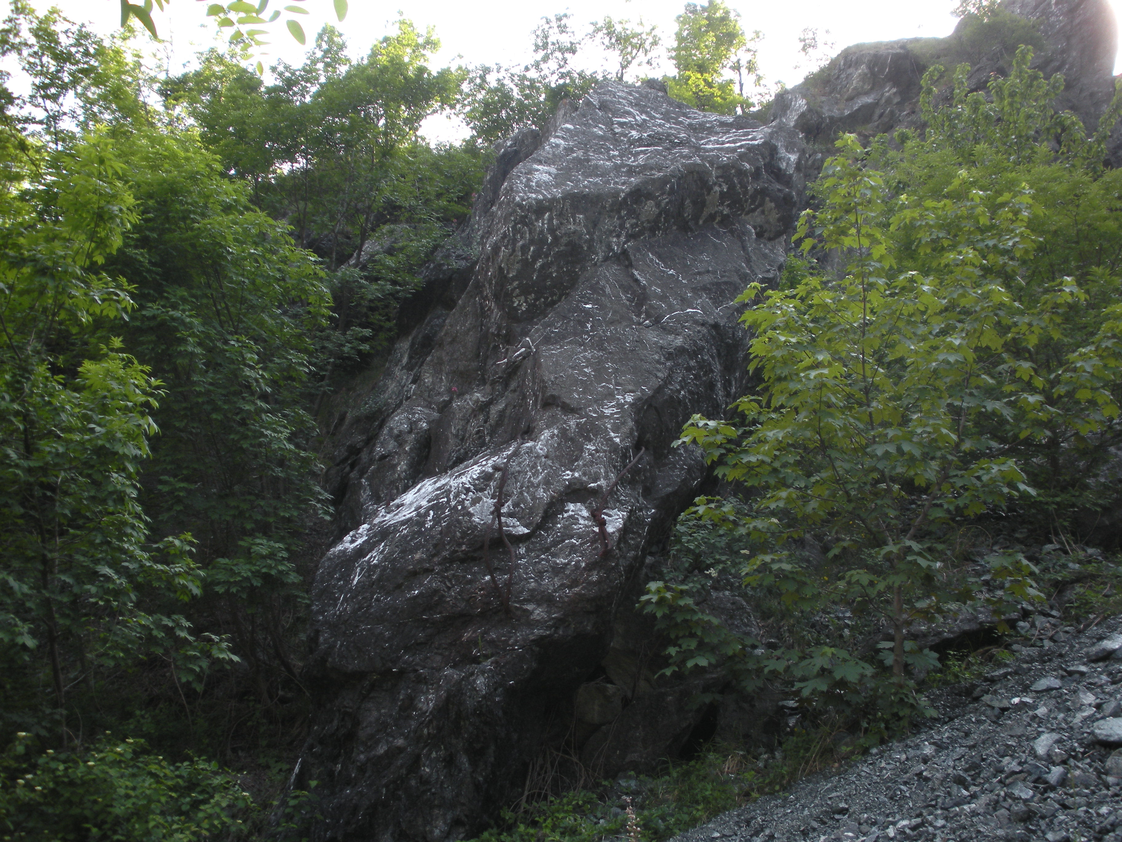 Campomorone, province of Genoa, Italy, green marble quarry